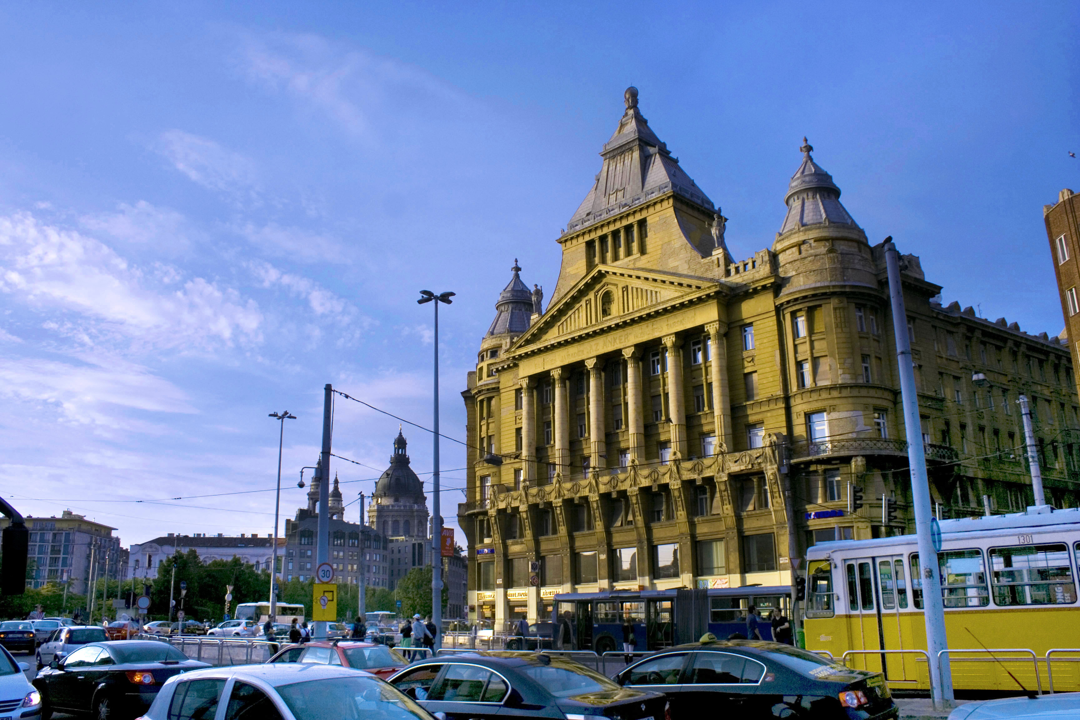 Hungary, Budapest, Downtown- Deak square with Anker Palace.